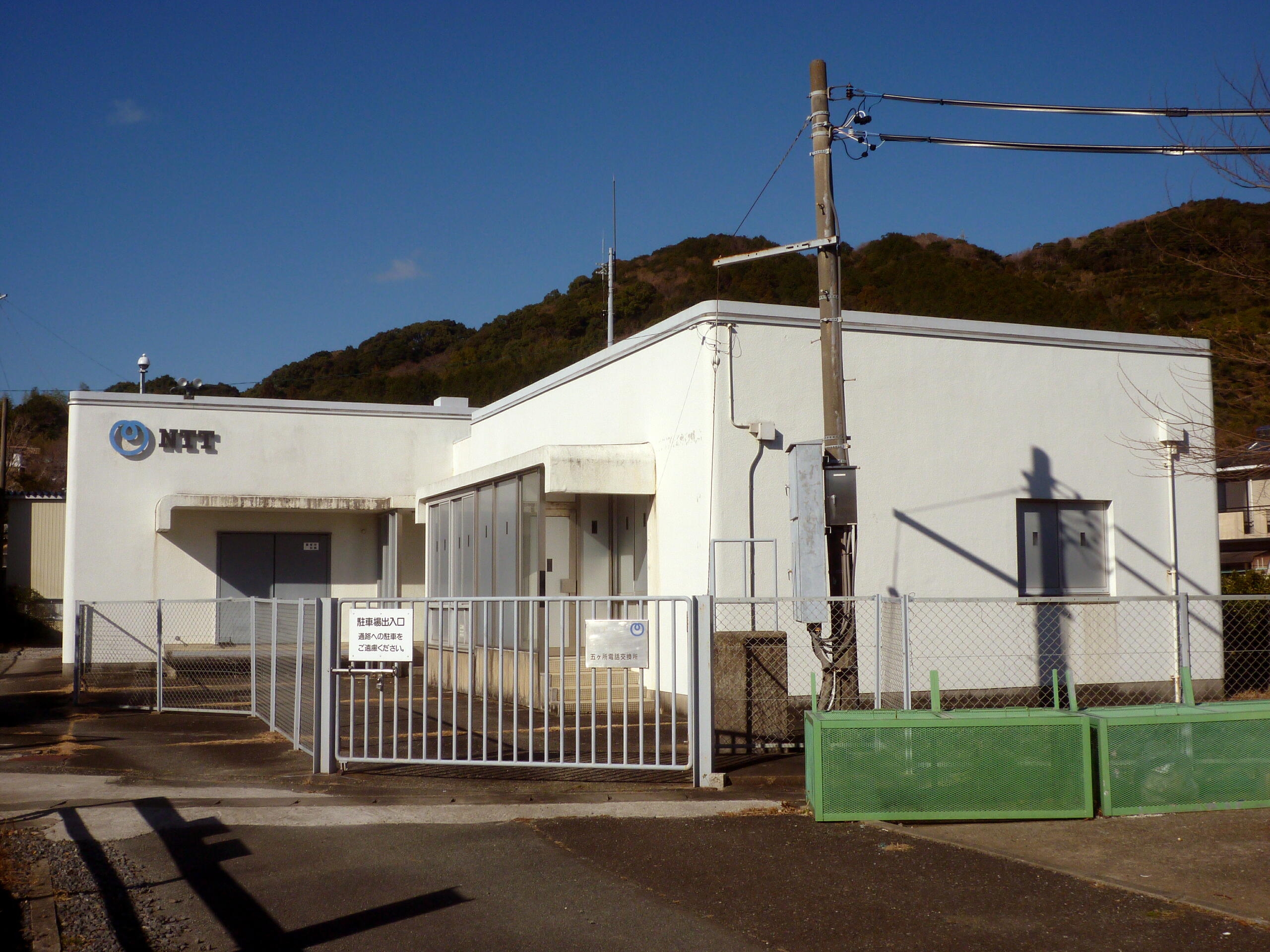 The "NTT Gokasho Telephone Exchange Building" in Gokashoura, Minamiise Town, Watarai District, Mie Prefecture, Japan.